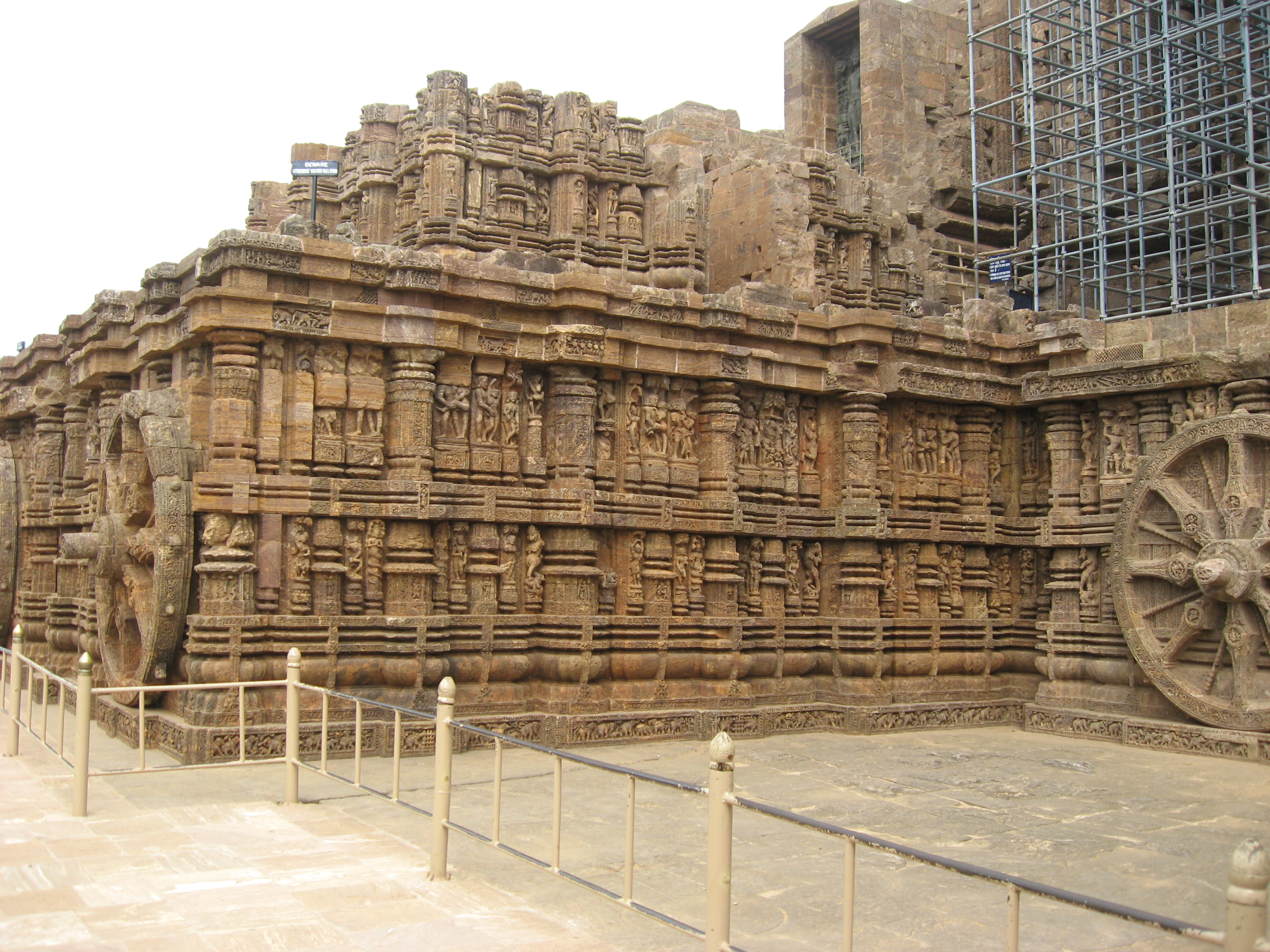 Konark Sun Temple is a 13th-century Sun Temple (also known as the Black Pagoda), at Konark, in Orissa. It was constructed from oxidizing and weathered ferruginous sandstone by King Narasimhadeva I (1236-1264 CE) of the Eastern Ganga Dynasty. The temple is one of the most well renowned temples in India and is a World Heritage Site.